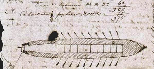 Keelboat, as used on Ohio and Missouri rivers in the 19th century, scetch from the field notes of William Clark, on 1804-01-21